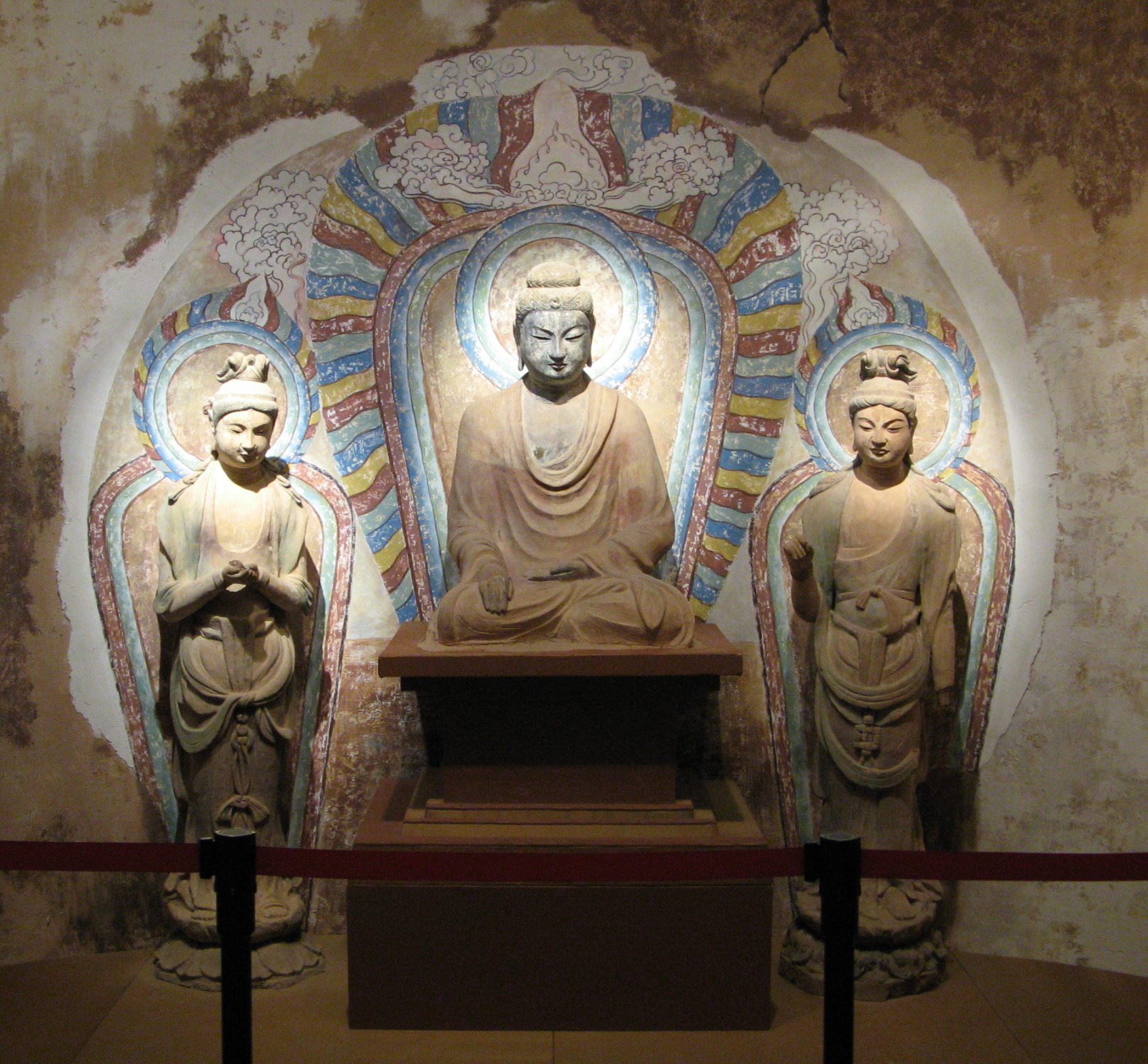 Buddha Triad. Tang Dynasty, 618 - 906 AD. Gansu Provincial Museum This stunning triad, of a seated Shakyamuni in Bhumisparsha flanked by two Bodhisattvas, comes from Tiantishan. Statues and paintings from Tiantishan were moved to the Gansu Museum for preservation when the Huangyang River reservoir was constructed in 1960.